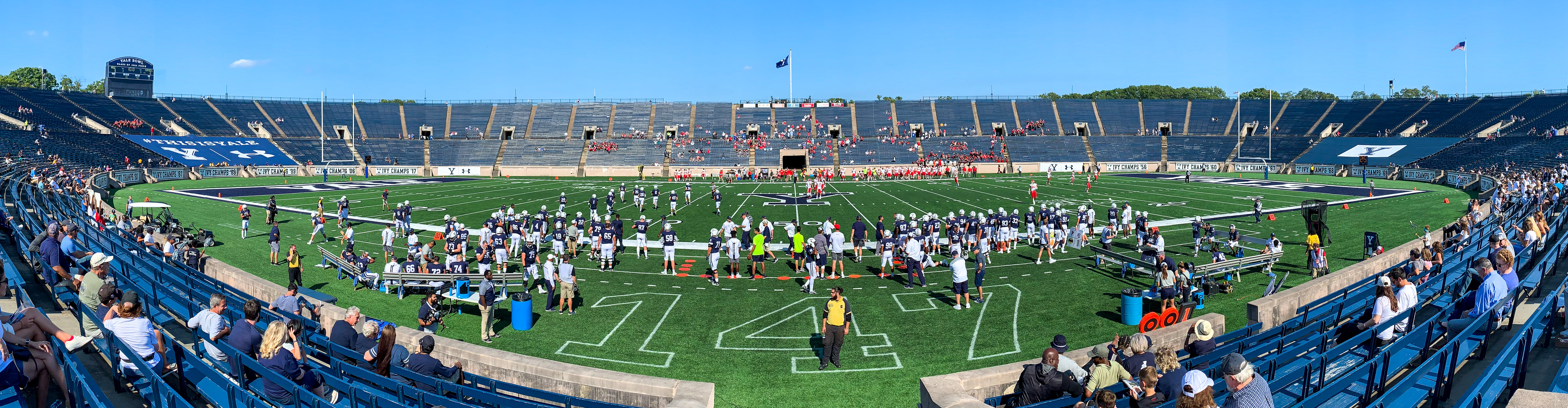 Panoramic image of Yale Bowl, the Yale University football field. Yale/Cornell football game, September 28, 2019. View from home stands; scoreboard at left.